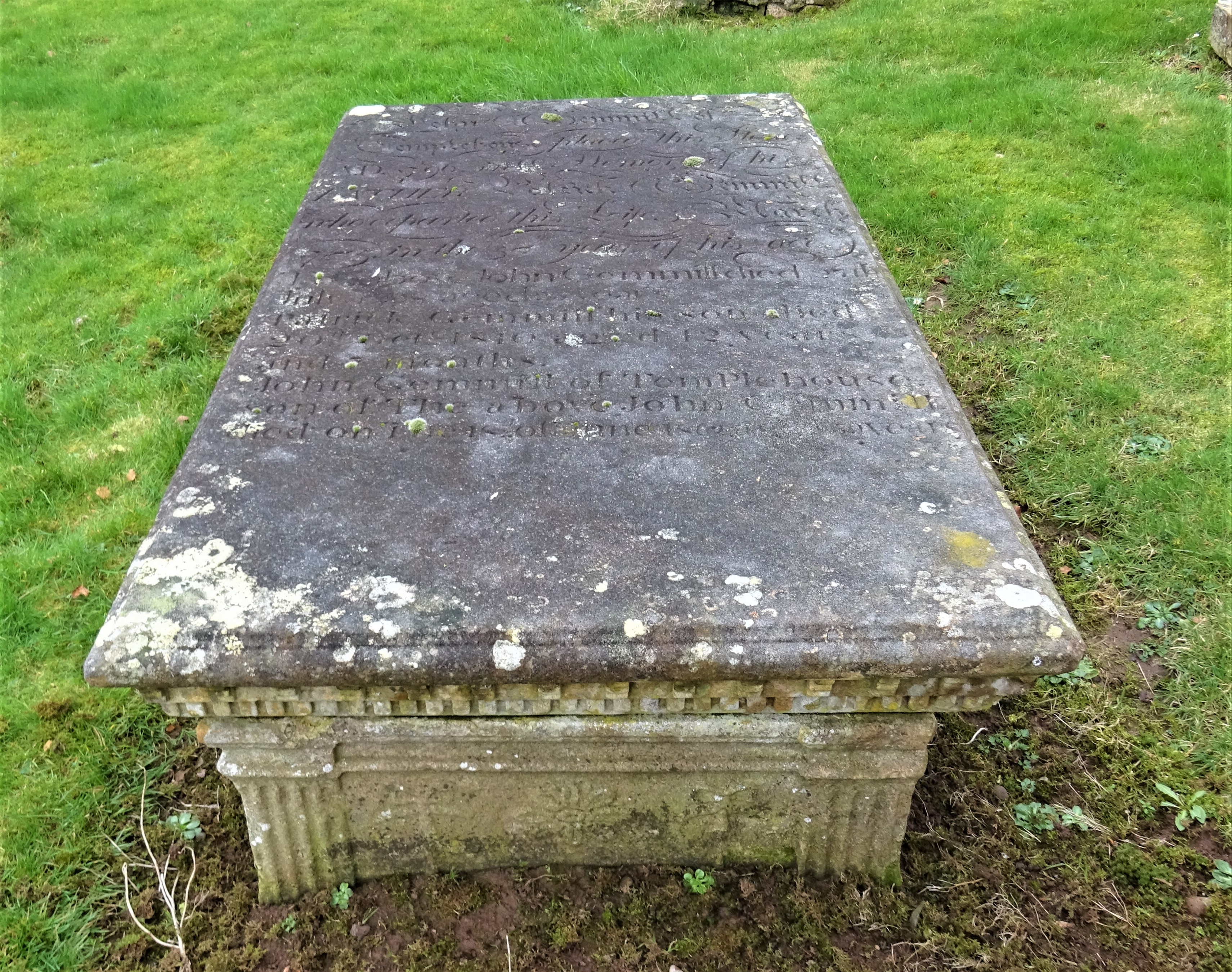 Gemmill of Templehouse gravestone, Dunlop churchyard, East Ayrshire